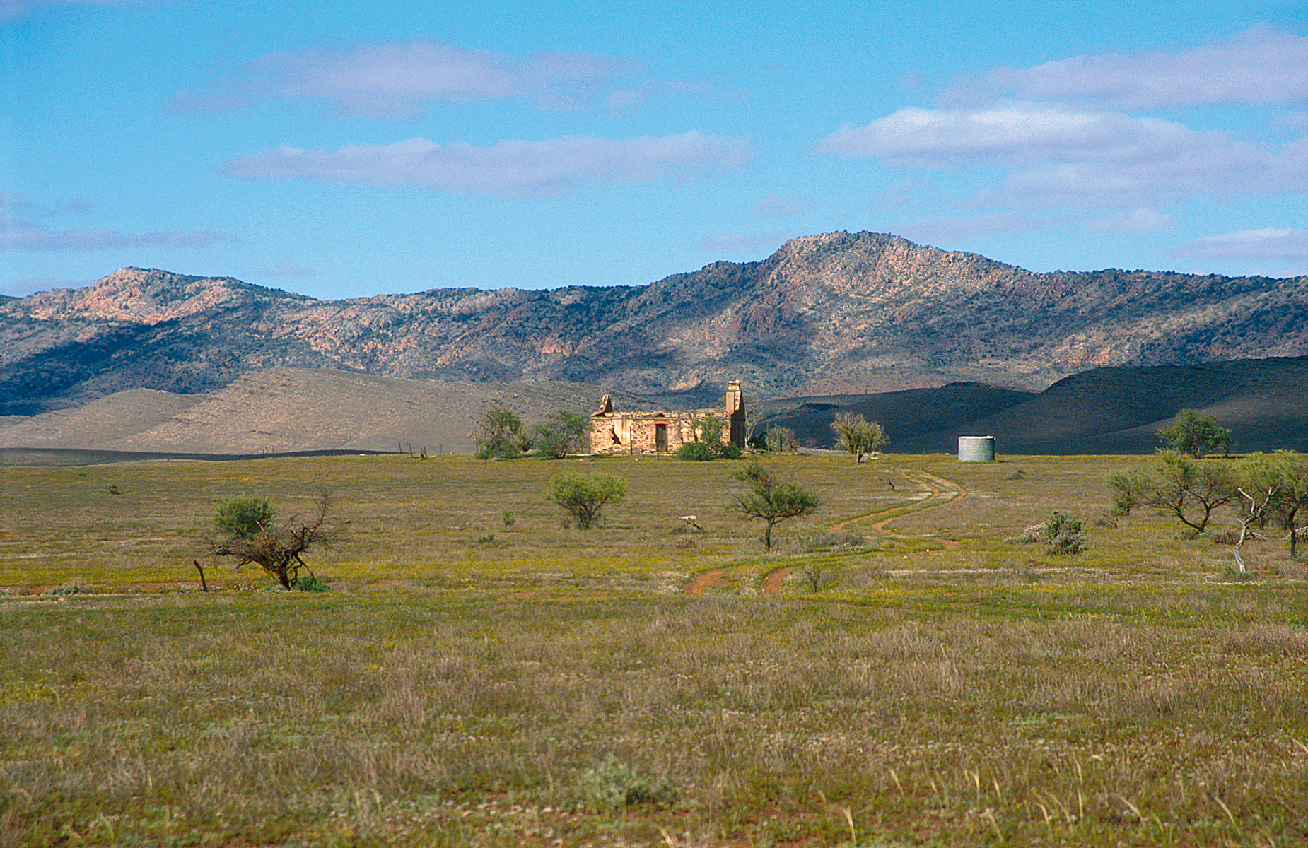 Abandoned homestead north of Hawker on the western edge of the Flinders Ranges, South Australia. 2003.